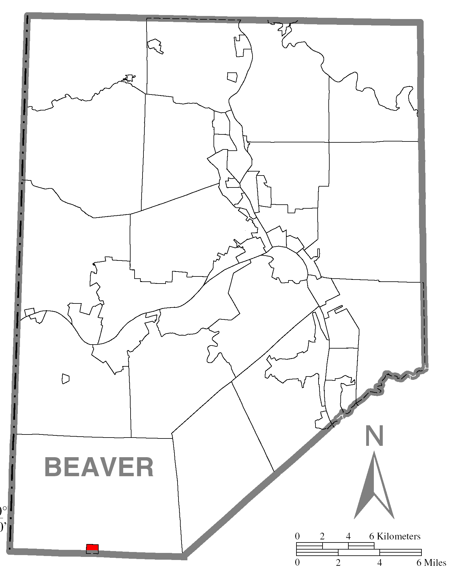 A map of Beaver County showing Frankfort Springs, Pennsylvania (alternate) highlighted on the map.